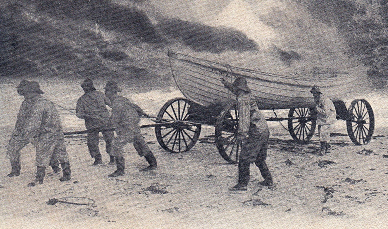 "The Start of the Life-boat, Cape Cod", depicts deployment of a lifeboat from Old Harbor U.S. Life Saving Station in Chatham, Massachusetts. Written on the back: "The man marked X is my brother." (no name signed) Postmarked: Provincetown 1906. Published by C.O. Tucker, Boston (1906-1917) They published view-cards of Massachusetts and scenes of the U.S. Life Saving Service in black & white and sepia halftone line block on a textured cream colored paper.